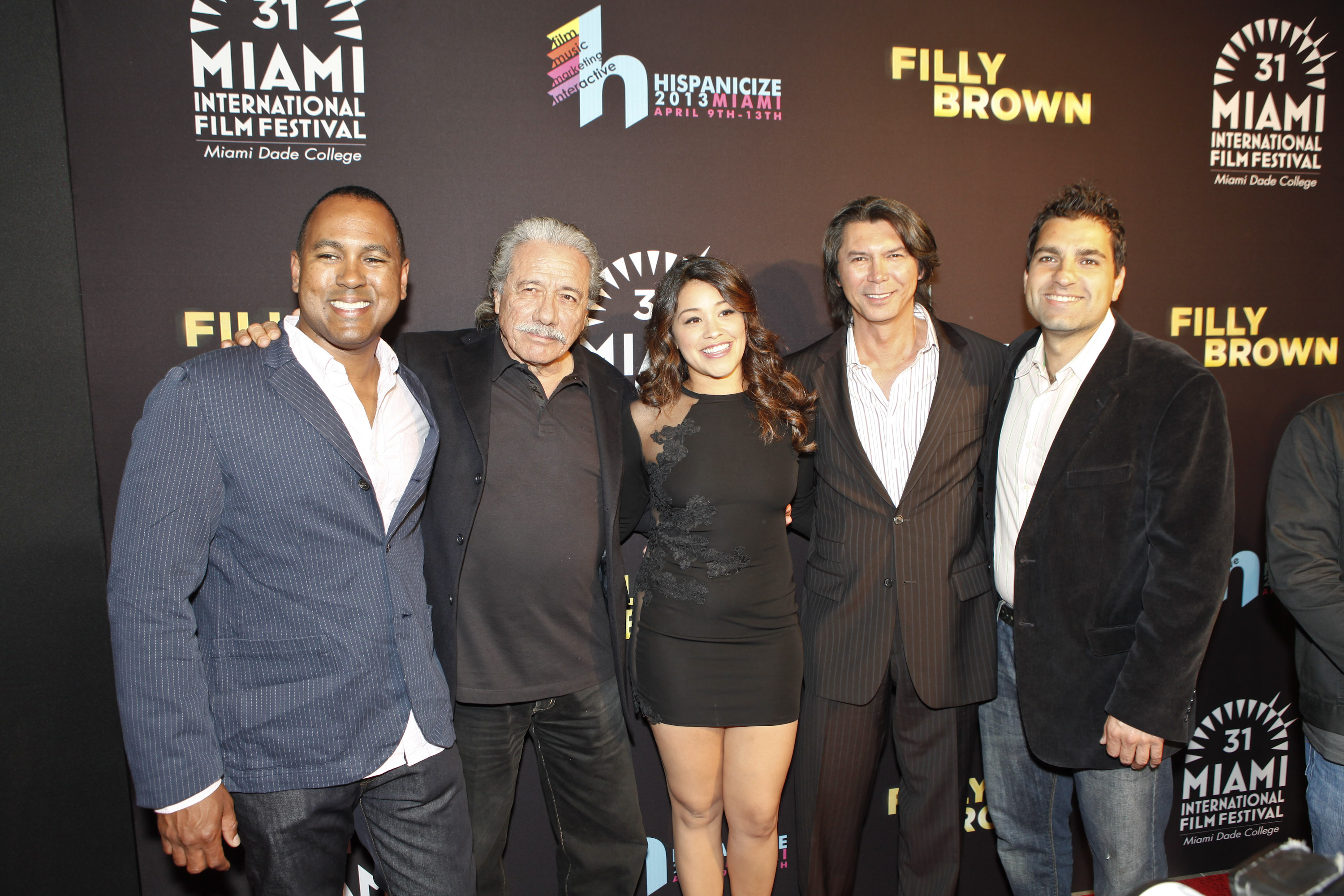 FILLY BROWN Red Carpet at Regal Cinemas South Beach, April 9, 2013. From left: Co-director Michael D. Olmos, Edward James Olmos, Gina Rodriguez, Lou Diaomond Phillips and co-director Youssef Delara